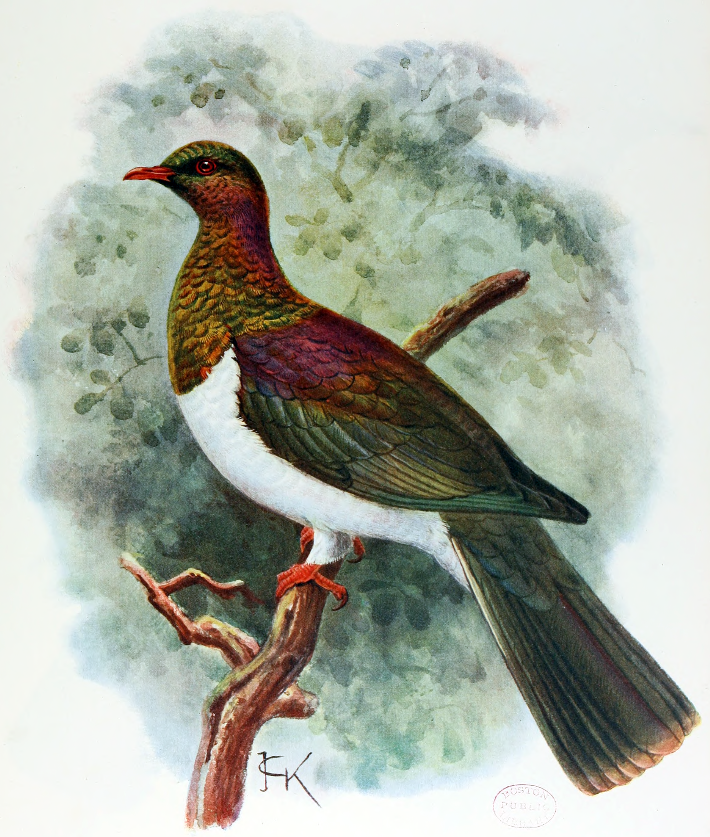 The Norfolf Island kererū (Hemiphaga novaeseelandiae spadicea) is a bird (pigeon) endemic to Norfolk Island, New Zealand.